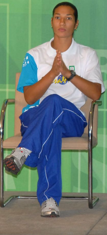 Daniela Alves, Brazilian soccer player